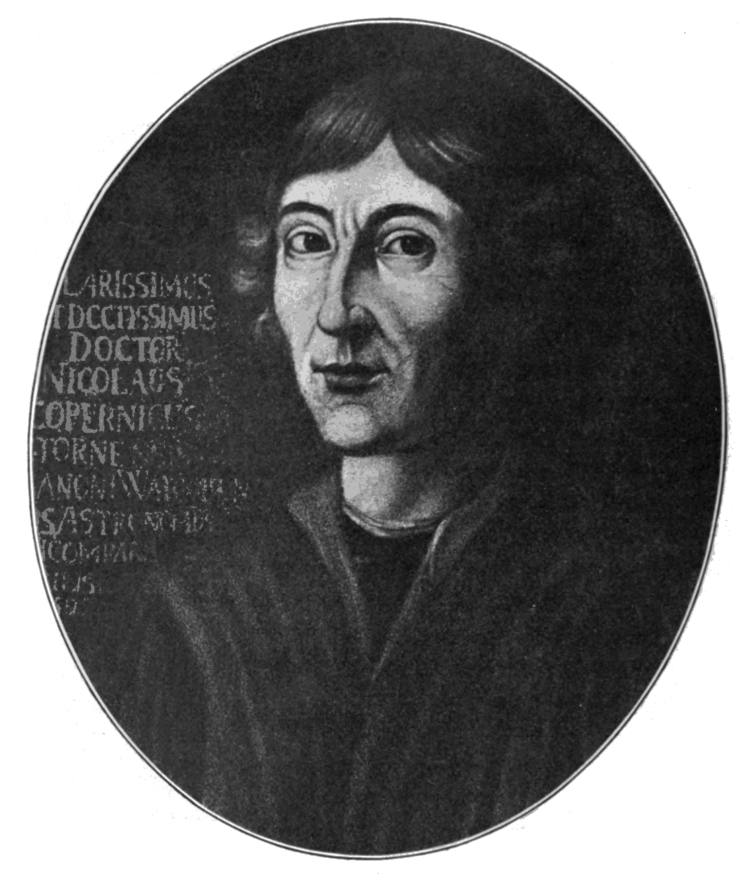 Nicolas Copernicus